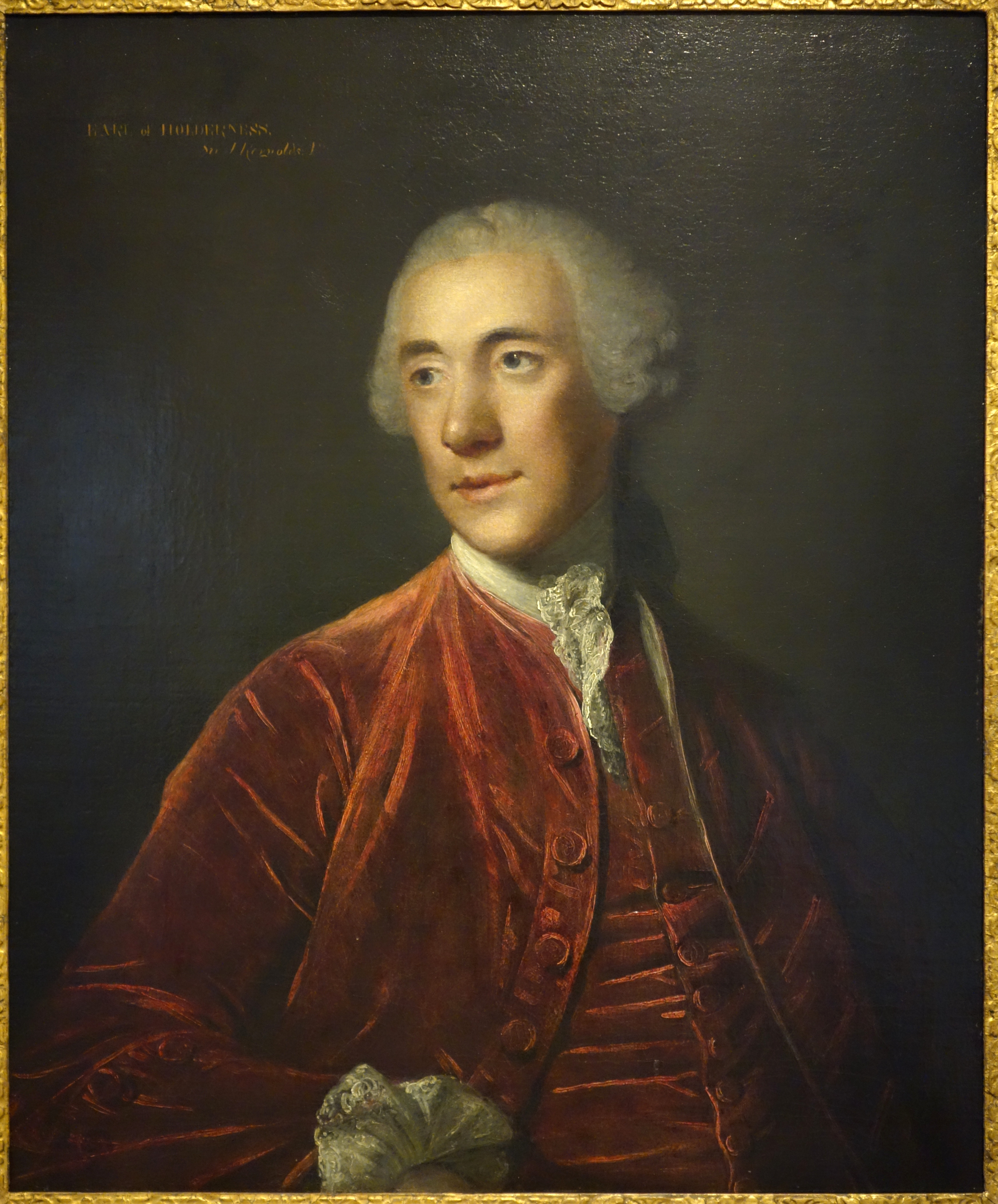 Painting in the National Museum of Western Art, Tokyo, Japan. This artwork is in the public domain because the artist died more than 70 years ago.